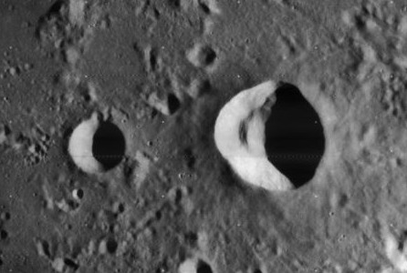 T. Mayer C crater (right) and T. Mayer D crater (left), on the moon.